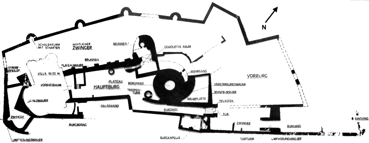 Floor plan of Castle Burg Windeck in Windeck, North Rhine-Westphalia